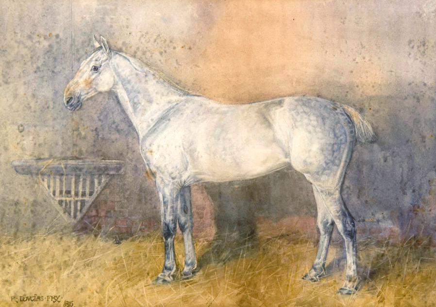 Robert Douglas Fry (1872-1911) - A dappled grey horse in a stable, 1895, watercolour, 23 x 33cm (9 1/16 x 13in).